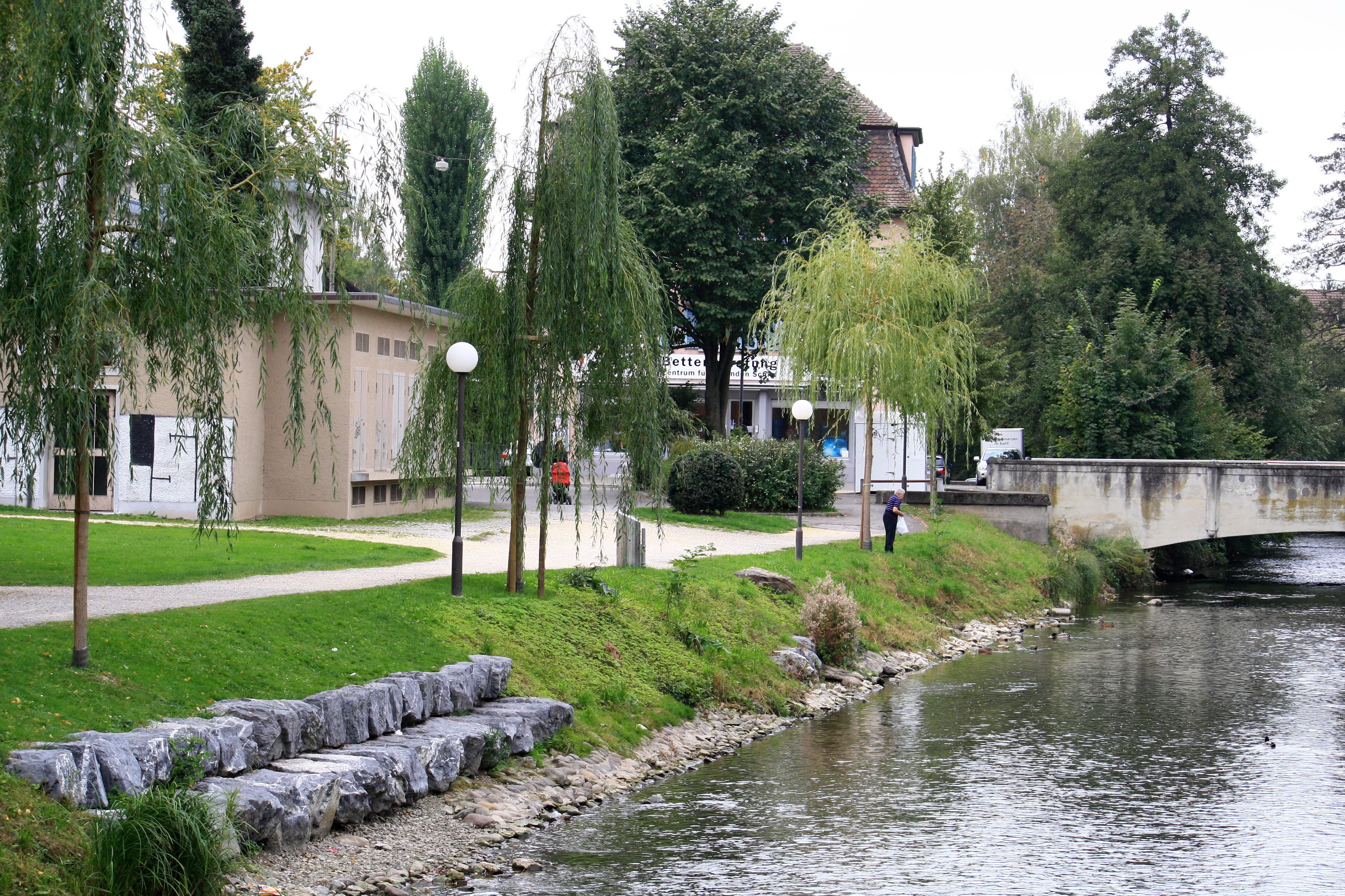 On the banks of the Glatt river in Dübendorf (Switzerland)